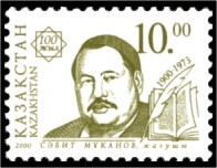 Stamp of Kazakhstan